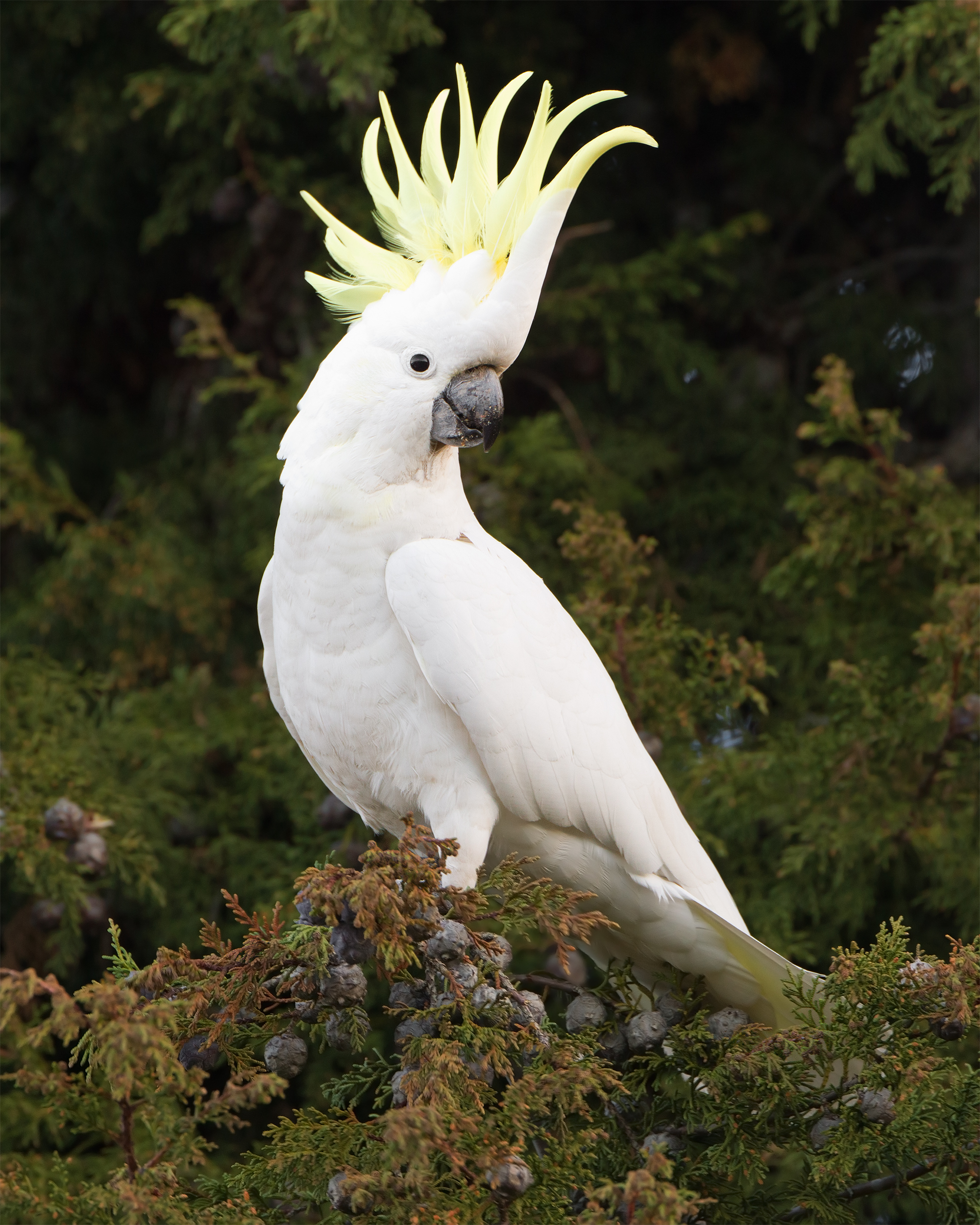 Sulphur-crested Cockatoo (Cacatua galerita), Austin's Ferry, Tasmania, Australia